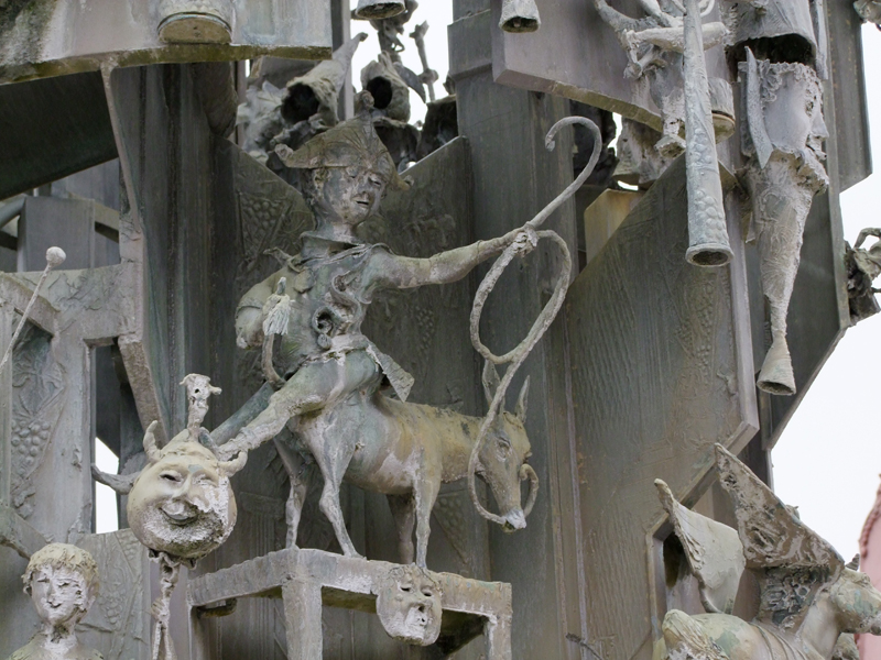 The stickler at the carnival fountain in Mainz